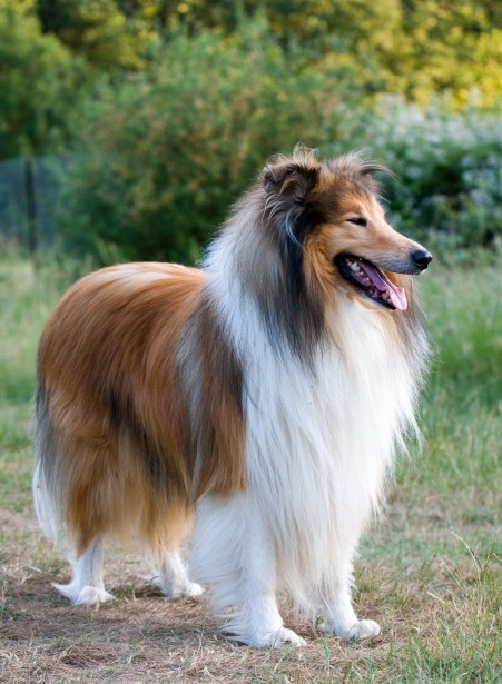 Portrait of a beautiful sable and white Collie dog standing